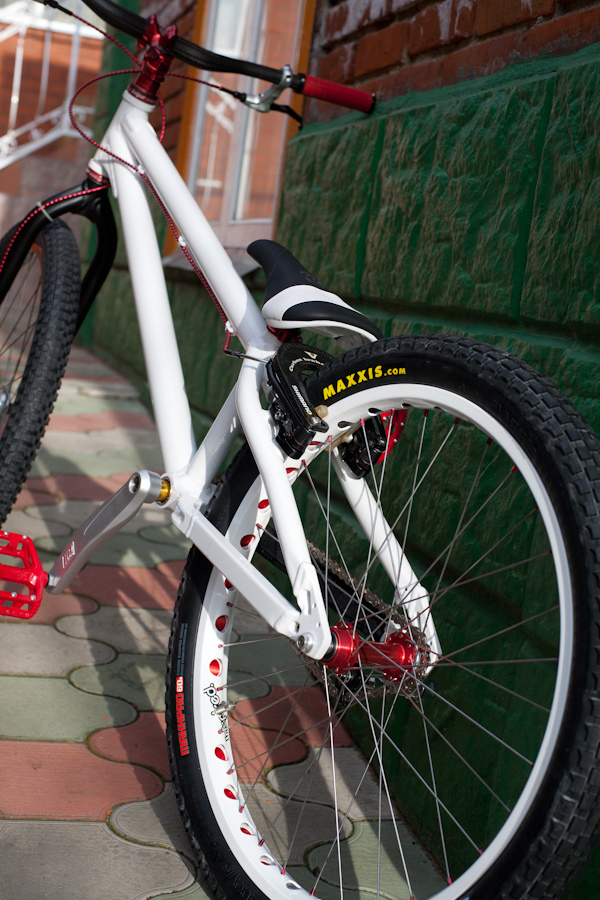 Inspired Fourplay 24" trials biccycle. (Rockman Maxxis Avid Onza Wellgo Federal)